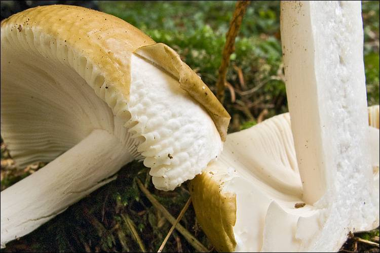 Fruit body of the fungus Russula ochroleuca Fr. The cuticle has been peeled from the cap. Specimen photographed in Mount Kobariški Stol ridge, East Julian Alps, Posočje, Slovenia.